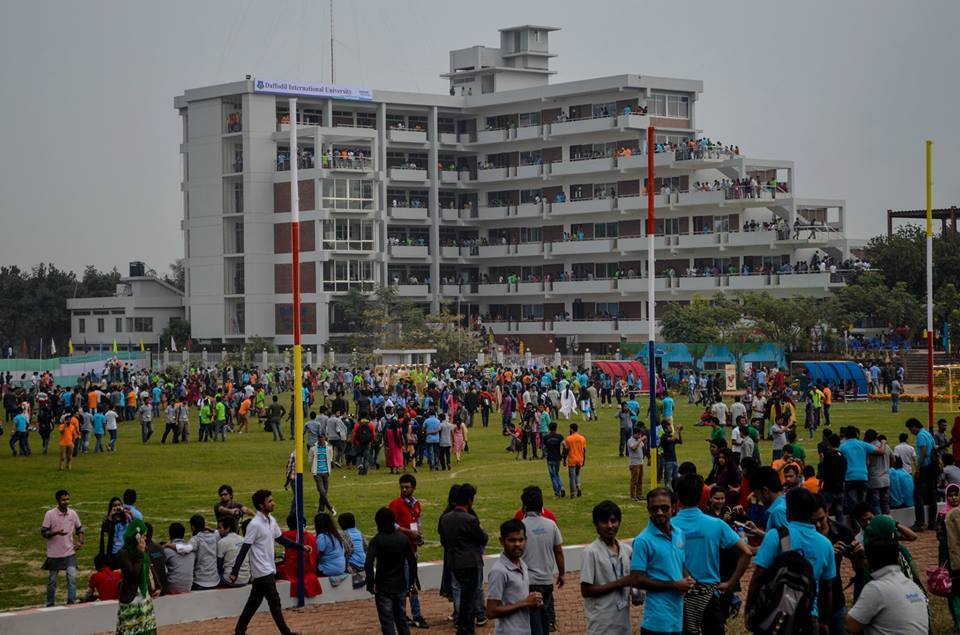 ParmanentCampusBuilding, Ashulia,Savar